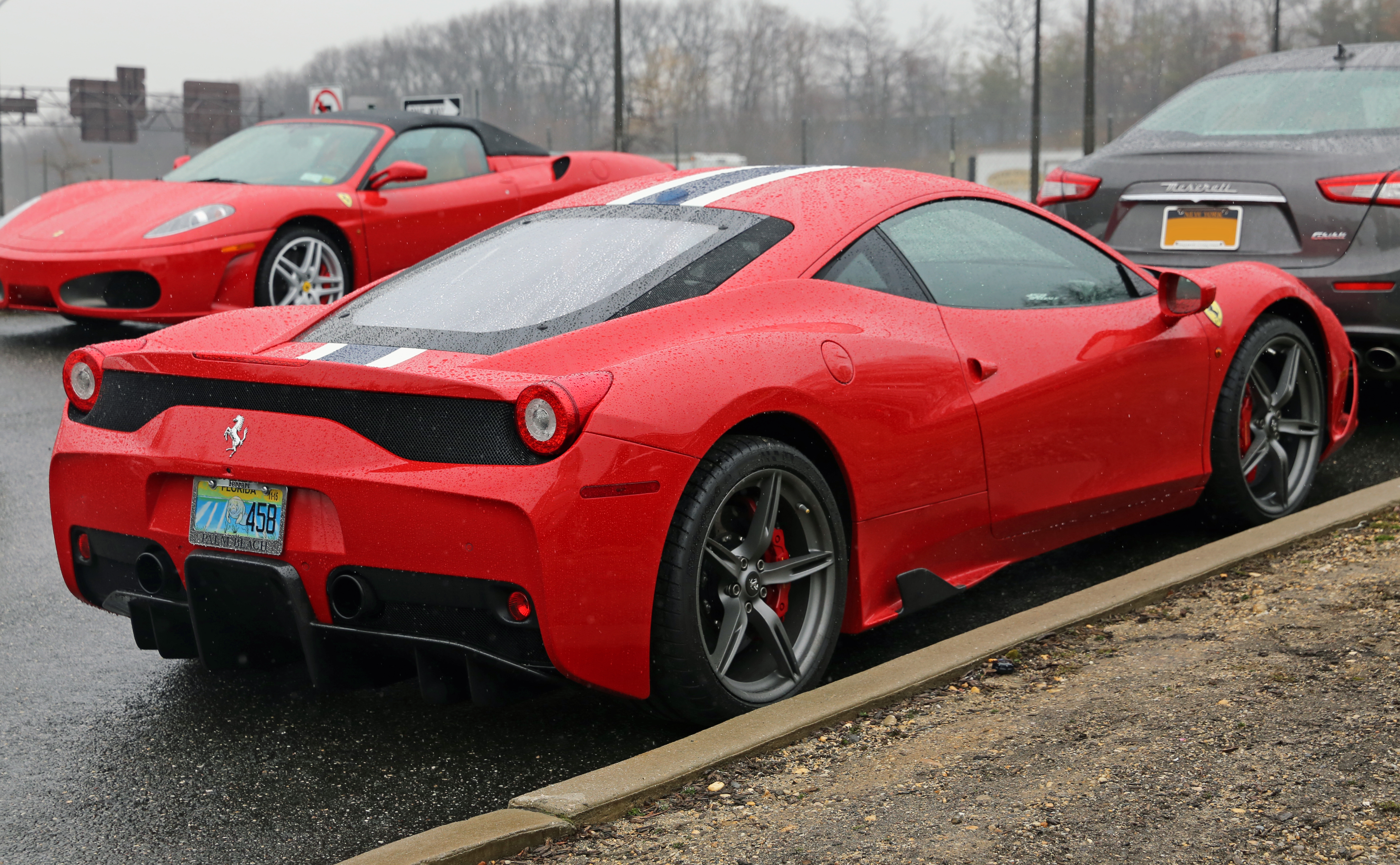 Rear right side view of a 2015 Ferrari 458 Speciale. Lots of aerodynamic trickery on these cars, quite cool. I also like the manatee license plate.